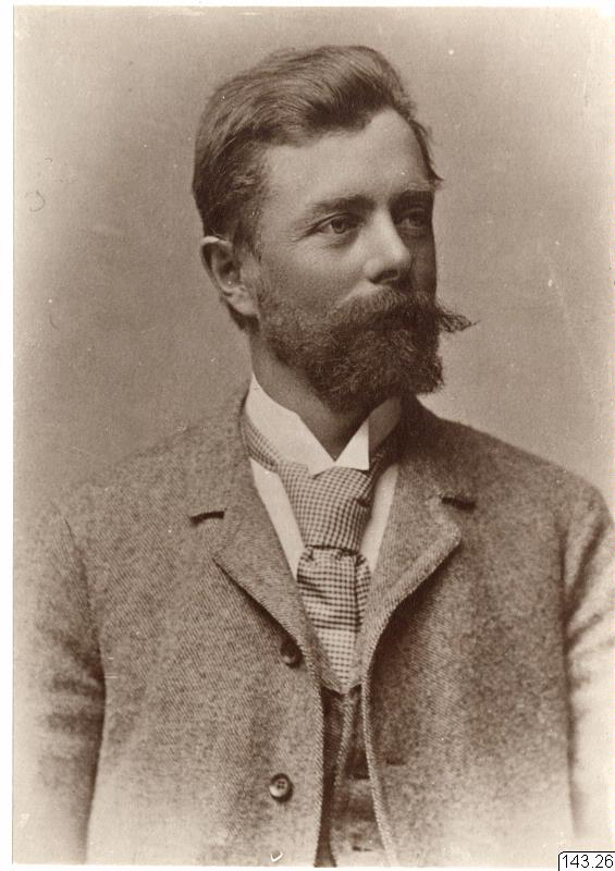 Botanist Per Dusén (1855-1926). Photo published in Otto Nordenskiöld's "Från Eldslandet", page 64, in 1898.